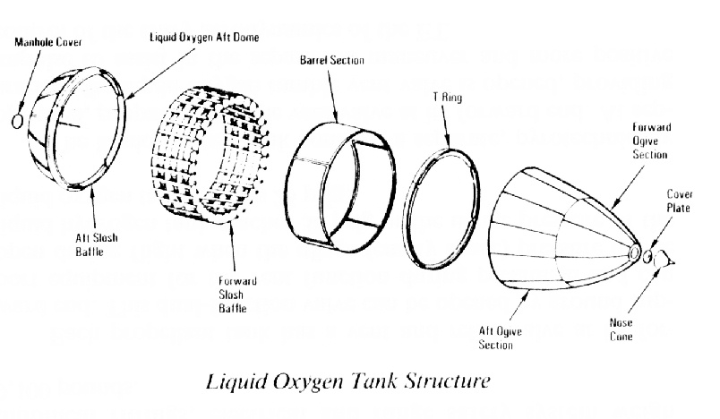 LIQUID OXYGEN TANK used in ET(External Tank) of shuttle system